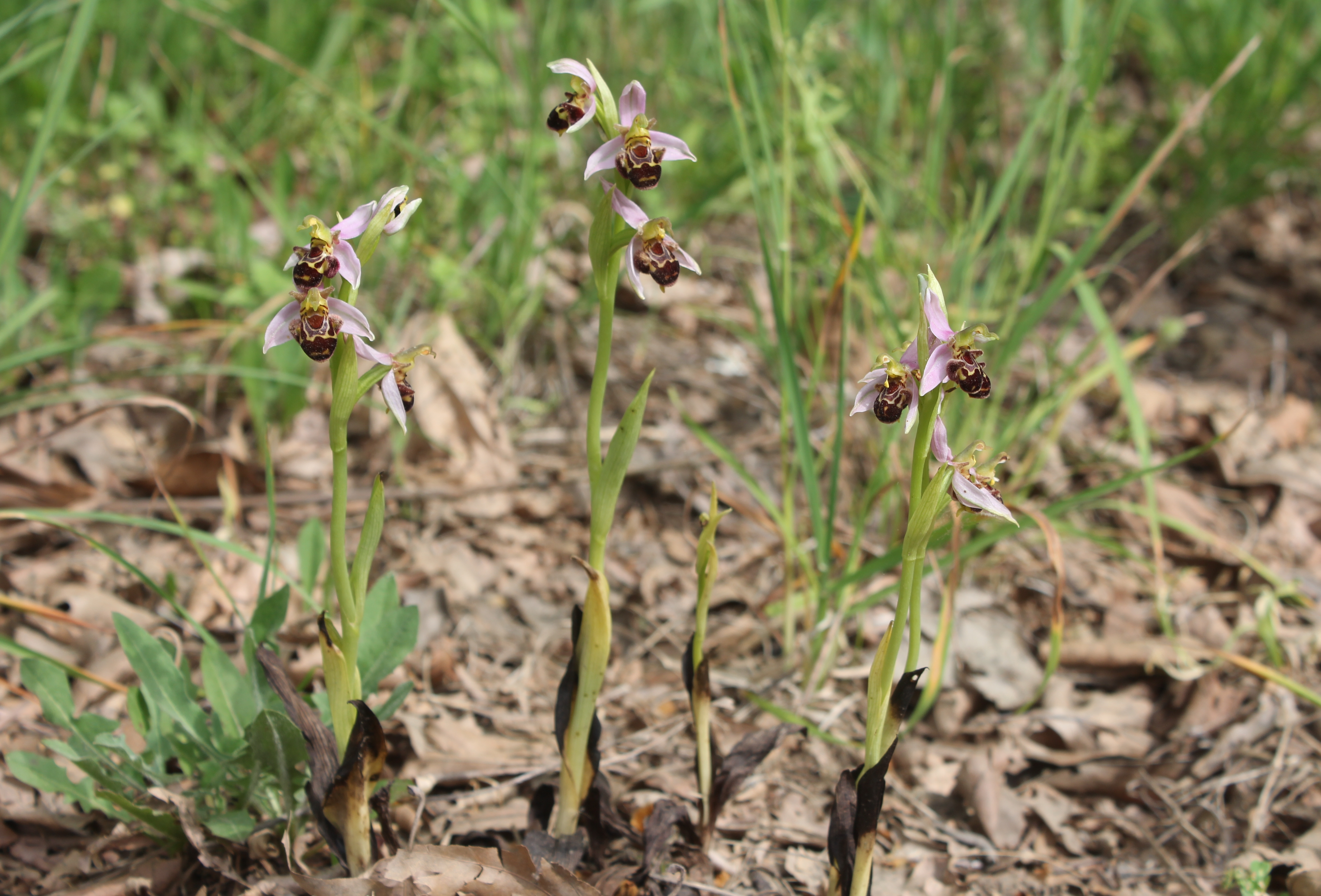 Ophrys apifera scapes